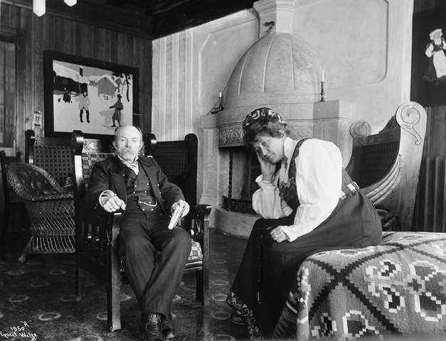 Arne Garborg and his wife Hulda at Finse Hotell in Norway.